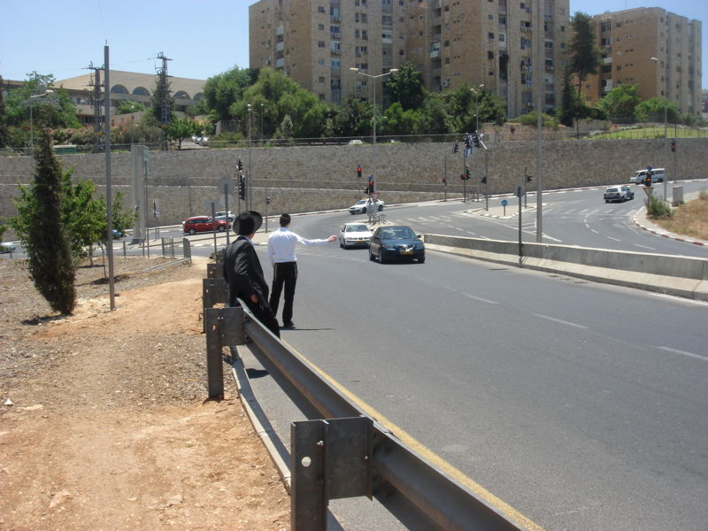 Orthodox Jews hitching in Jerusalem from the Givat Mordechai neighborhood at Bezalel Bazak Street onto Begin Highway northbound